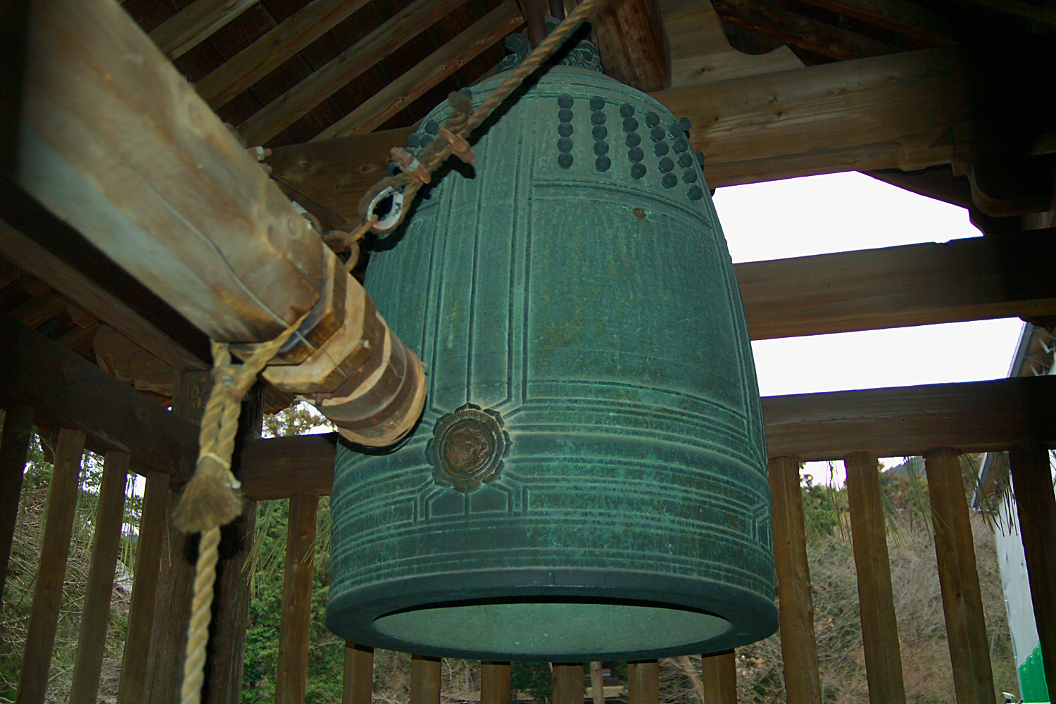 This bell Mii-dera no Bansho (三井寺の晩鐘), the evening bell at Mii-dera, a Buddhist temple in Otsu, Shiga Prefecture, Japan. The view of Lake Biwa with the sound of the of the Eight Views of Omi, and this bell is one of the Three Bells of Japan. I took the photo and contribute my rights in it to the public domain; individuals and organizations retain rights to images in it.